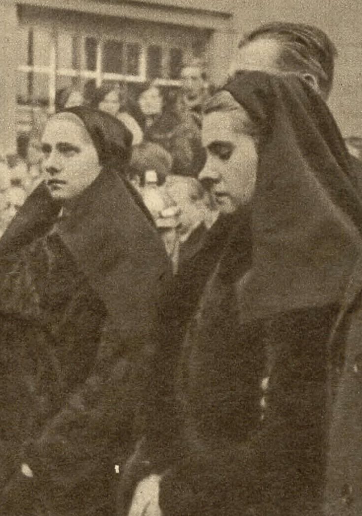 Daughters of Ignacy Daszyński during his funeral.